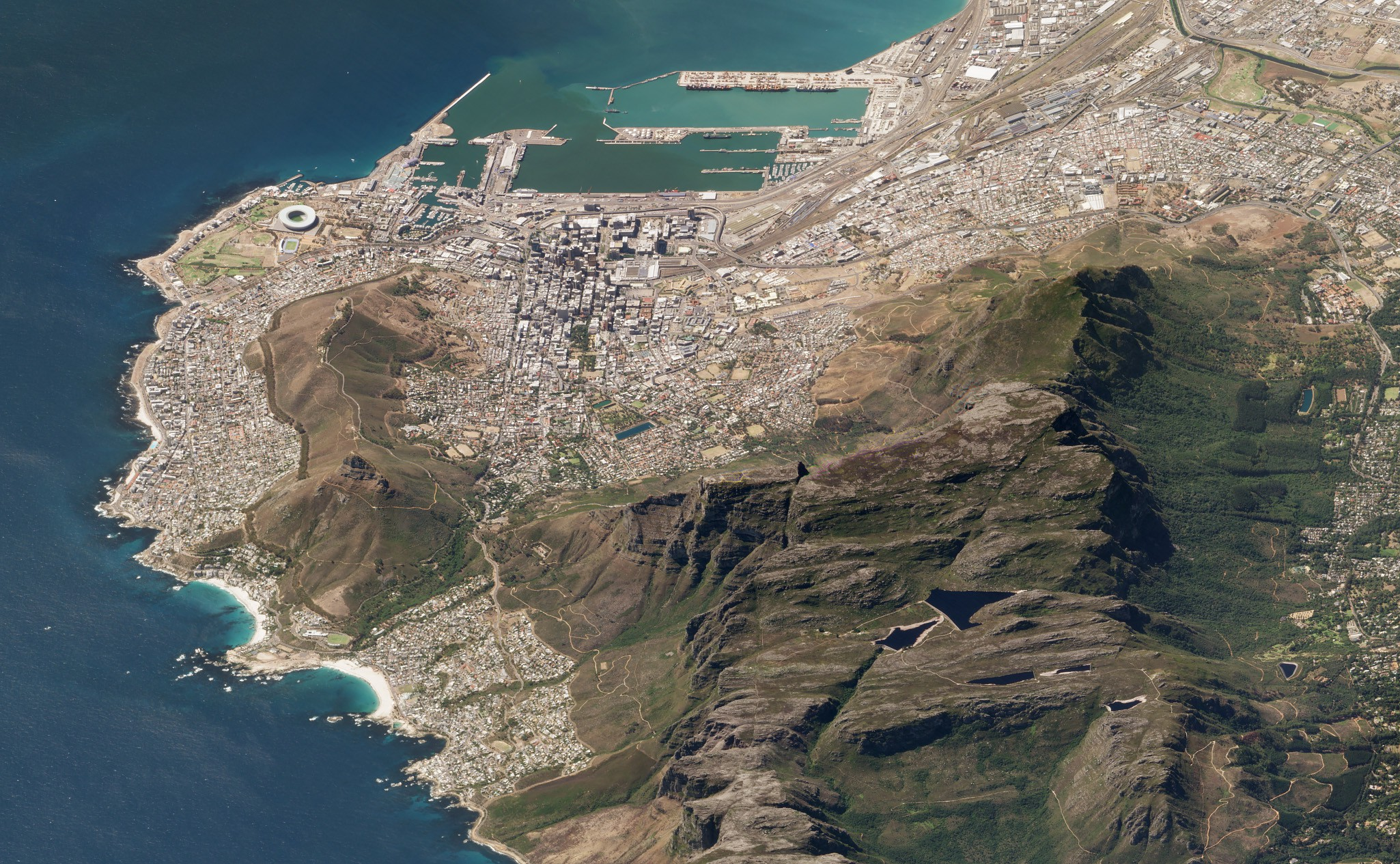 SkySat satellite image of Table Mountain in Cape Town, South Africa